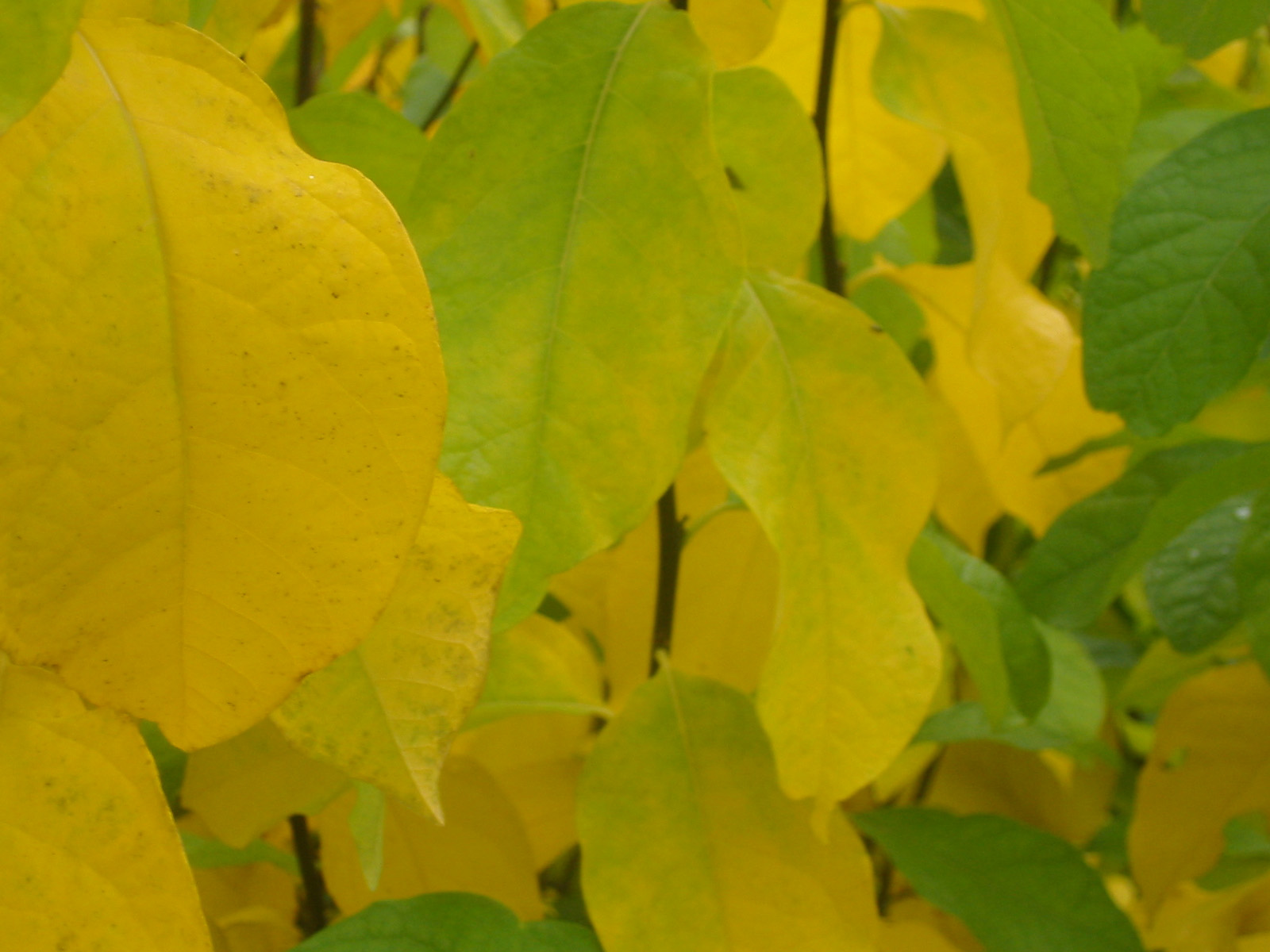 This is a picture of the yellow-green leaves of a tree (don't know the species), taken at the Montreal Botanical Gardens in fall 2004. I'm pretty sure that I touched the color up slightly later in Photoshop, but I don't remember exactly. Either way, the difference between this version and the original is minimal. If this work is used elsewhere (even on a wiki) I'd appreciate an email or other message indicating where, especially if such use is commercial.